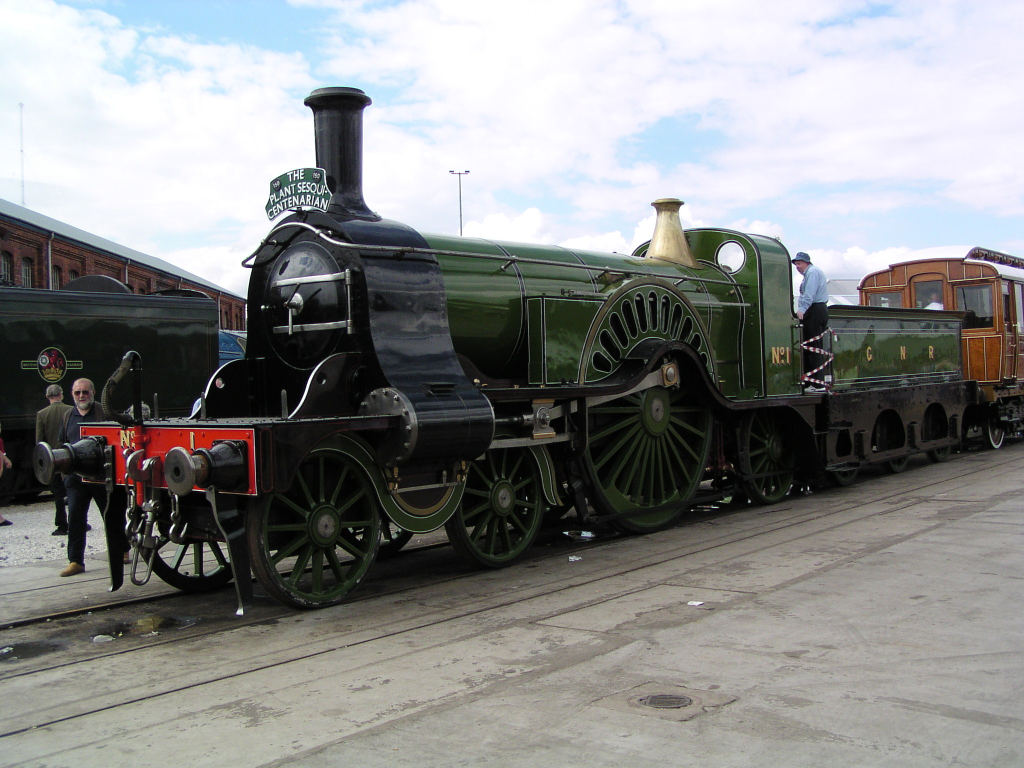 GNR Stirling 4-2-2 no. 1 at Doncaster Works open day on 27th July 2003. This locomotive is preserved at the National Railway Museum.